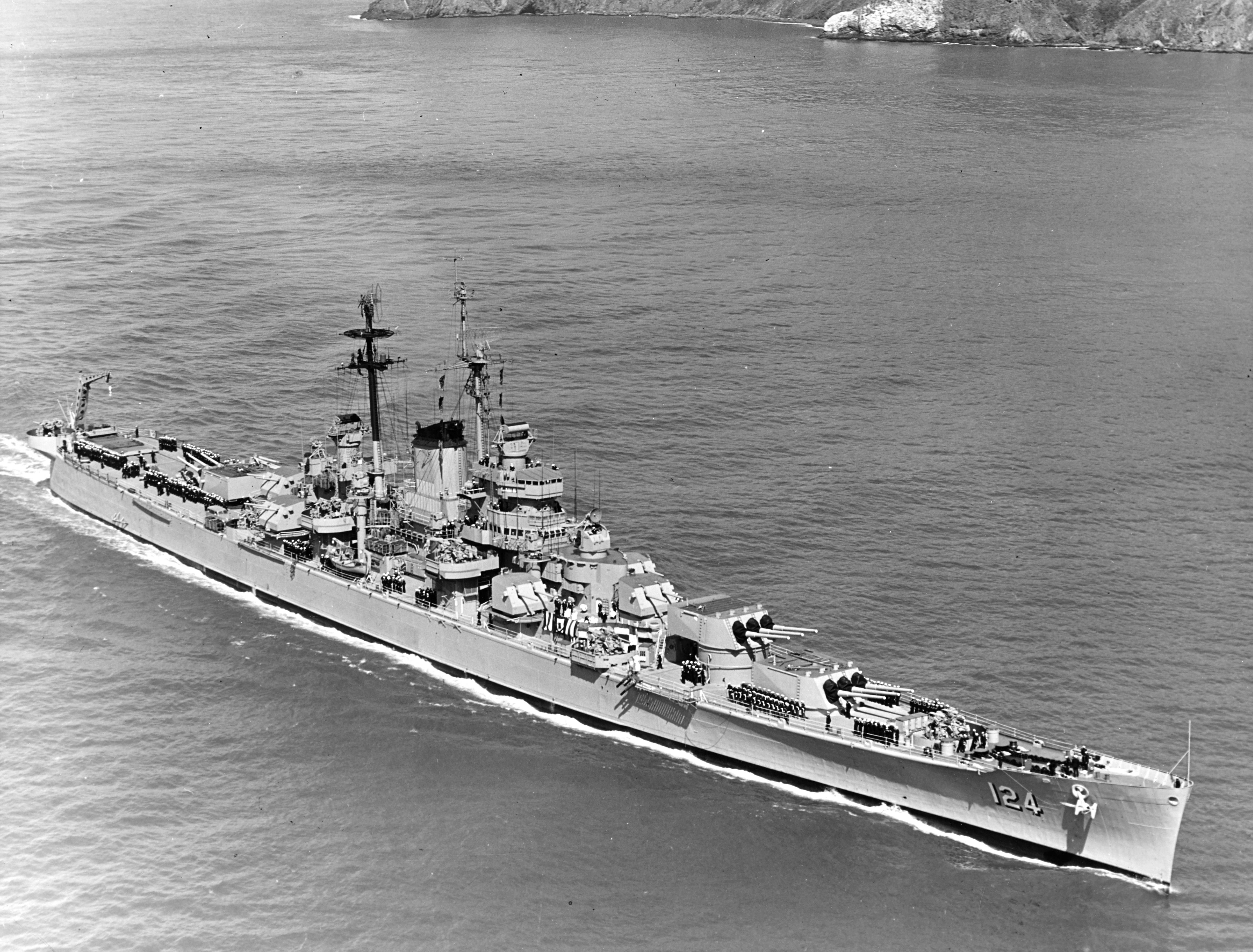 The U.S. Navy heavy cruiser USS Rochester (CA-124) underway in San Francisco Bay, California (USA), at the time of Fleet Admiral Chester W. Nimitz' review of the First Fleet, 13 June 1957.